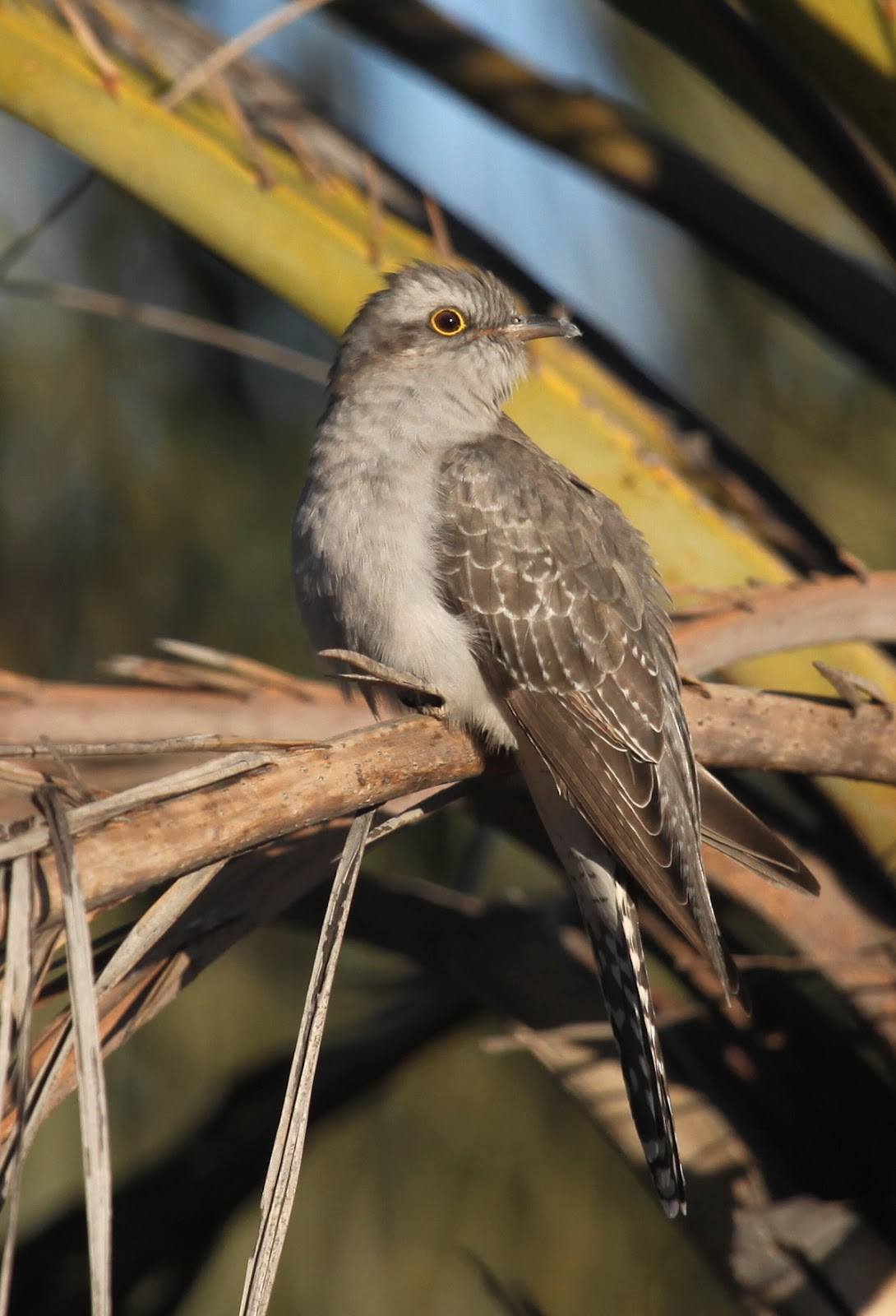 Pallid Cuckoo (Cacomantis pallidus), Northern Territory, Australia